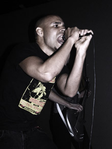 Jake Childs of POSR performs in San Antonio, Texas on June 18, 2009.